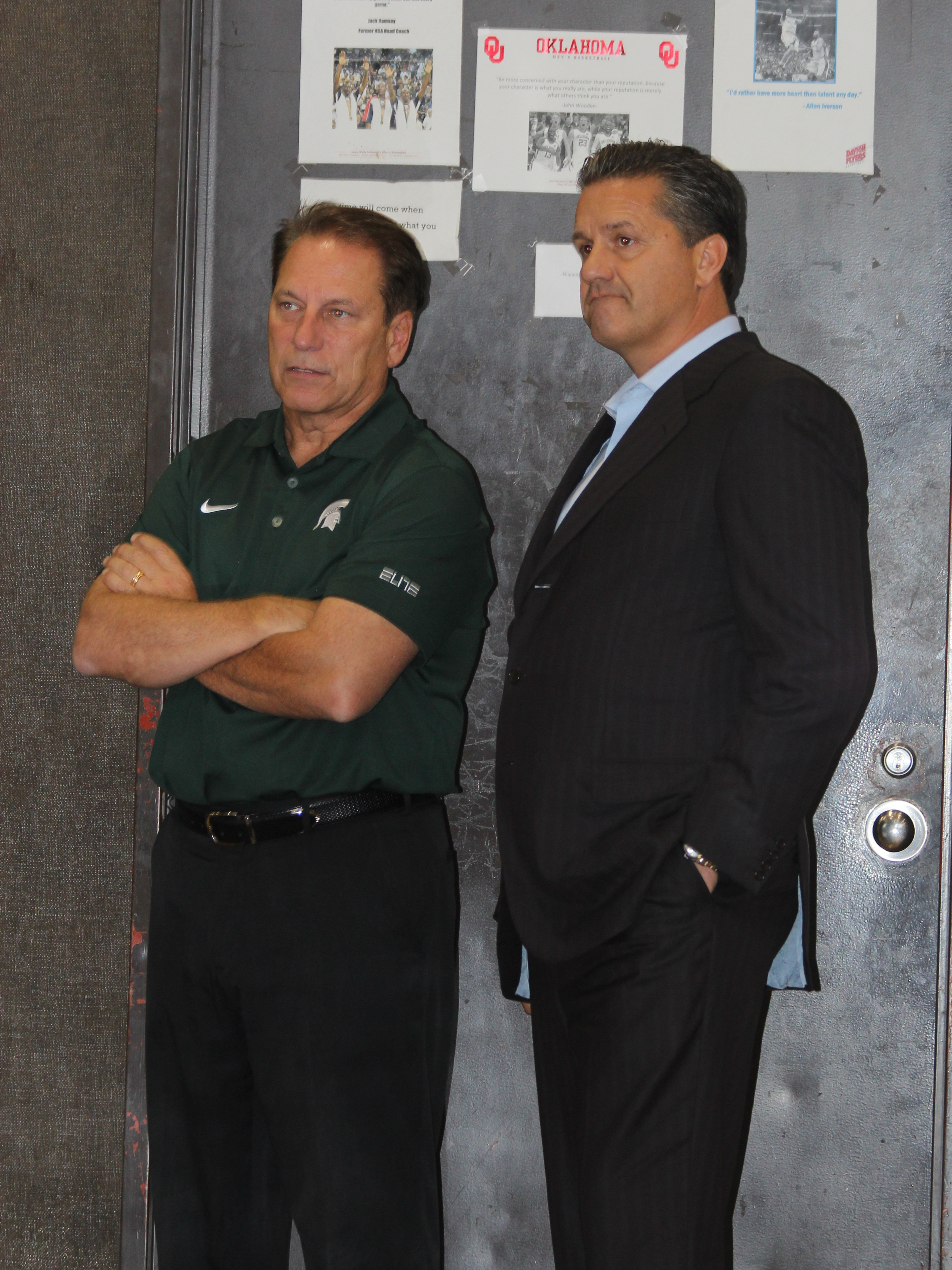 Tom Izzo and John Calipari at Whitney Young High School to recruit Jahlil Okafor.